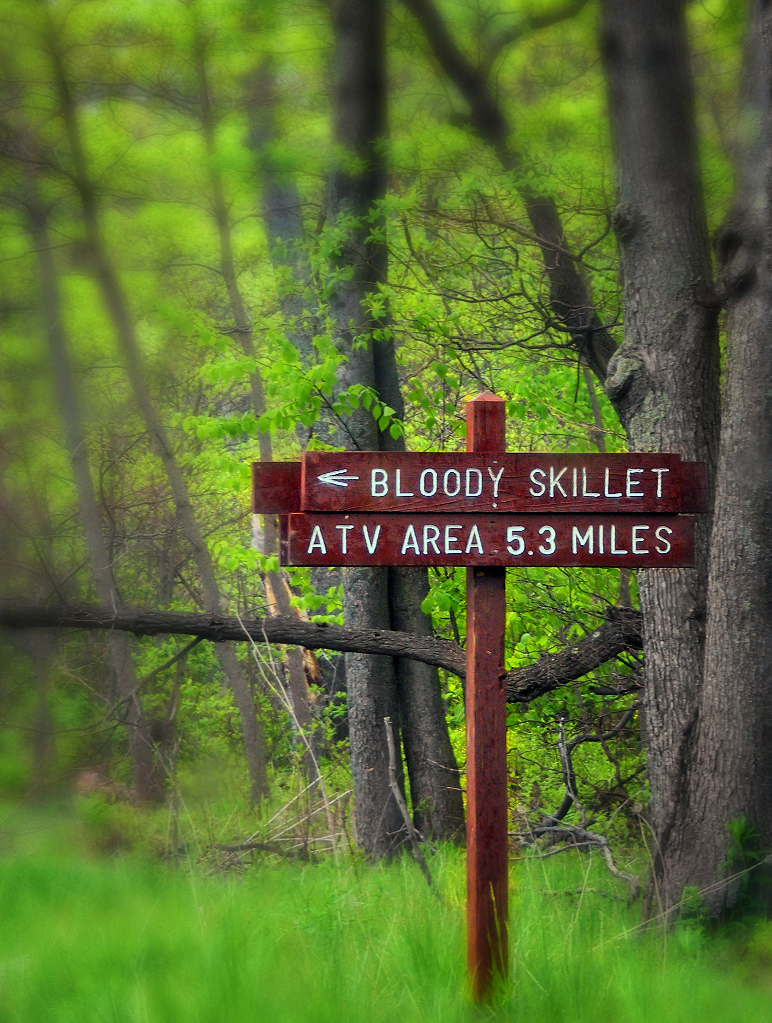 Signage, Route 144, Sproul State Forest, Centre County. Not sure of the name's origin.